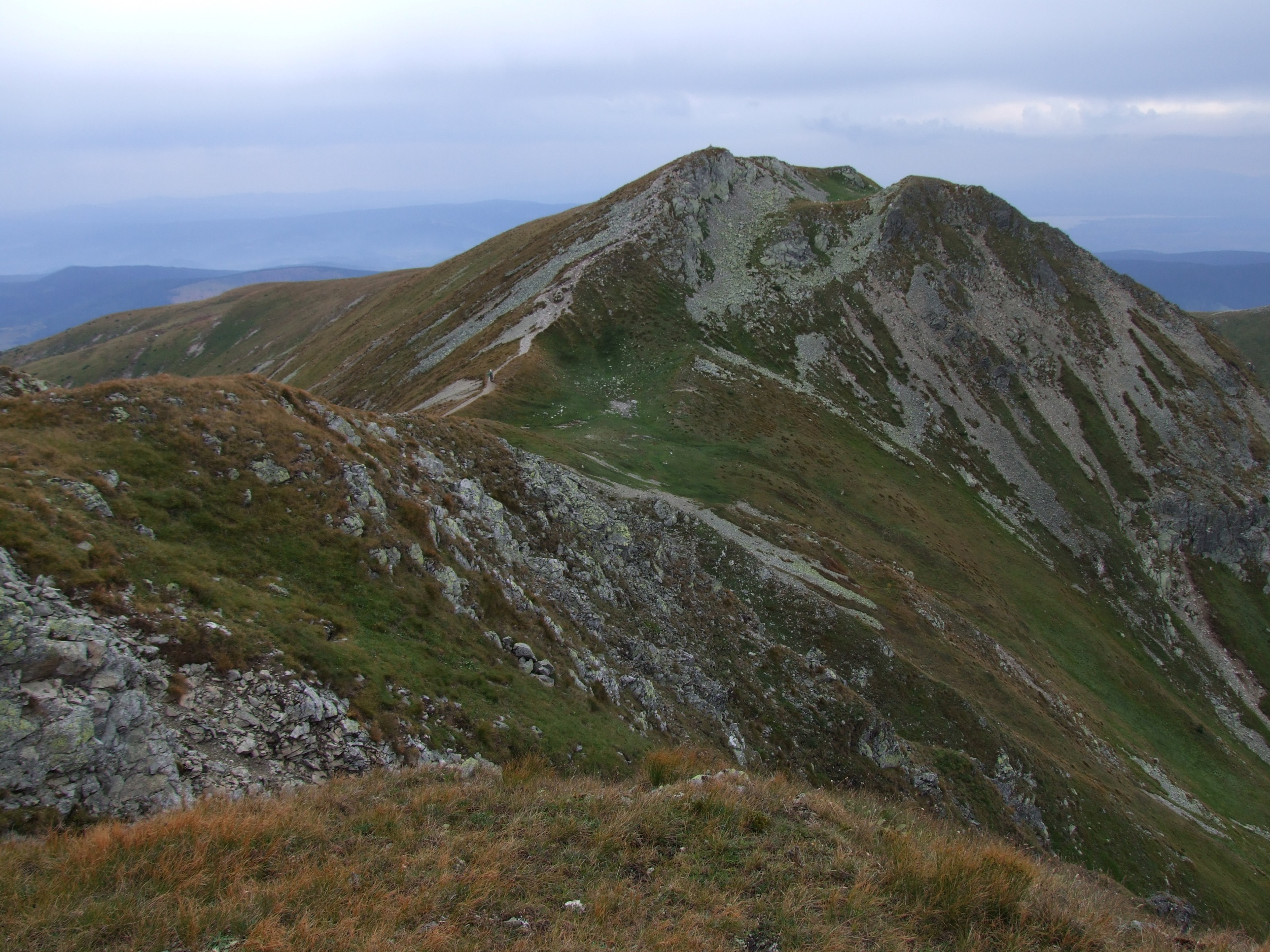 Mały Salatyn (West Tatra Mountains)